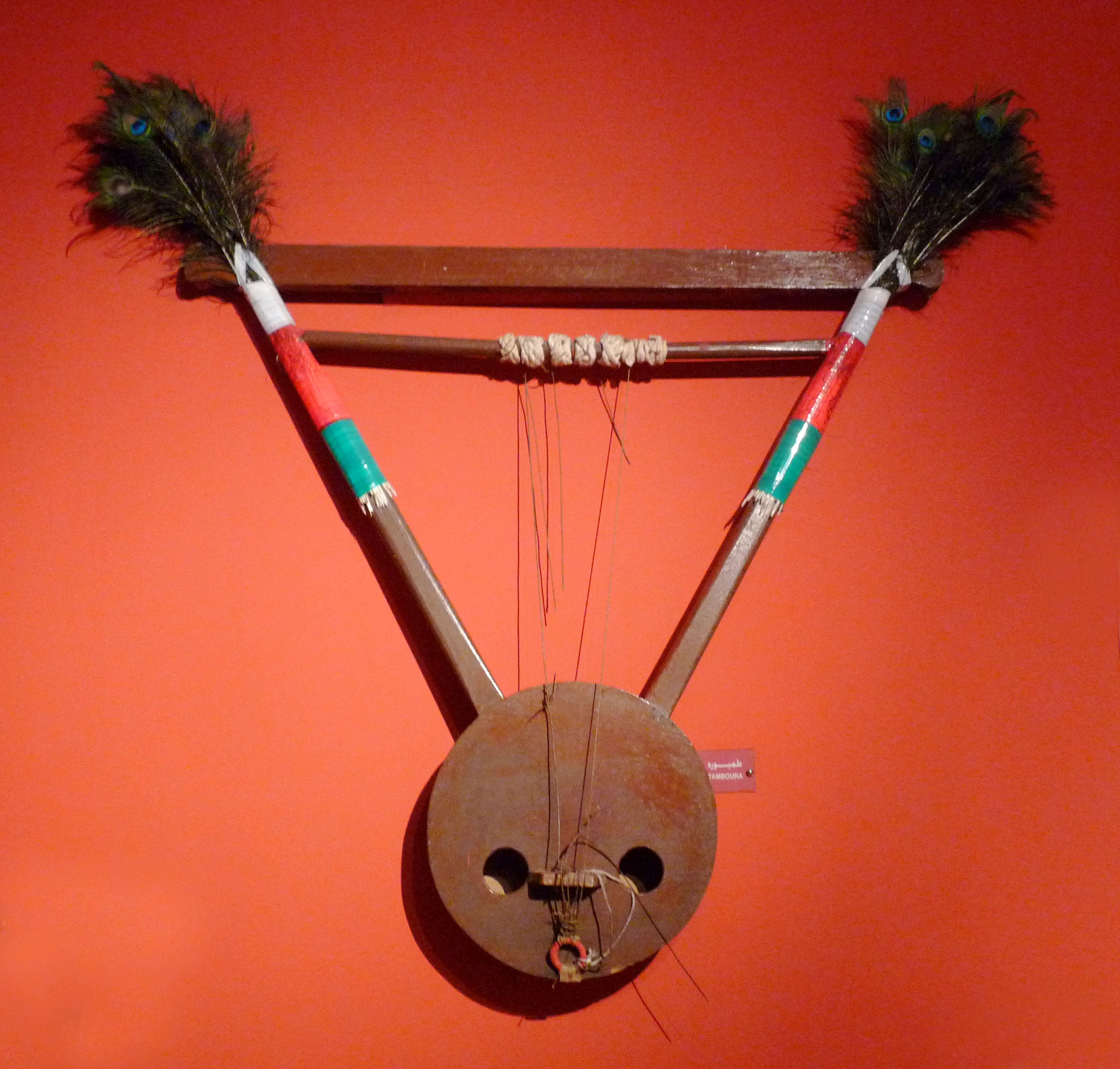 Bait Al Baranda Museum in Muscat (Oman). Tamboura.